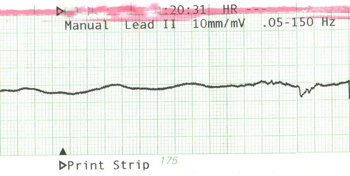 death akg